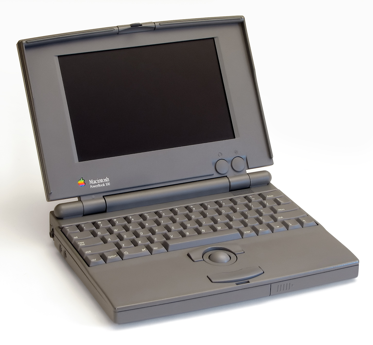 Powerbook 100 - Illustration by myself from Photography by myself.